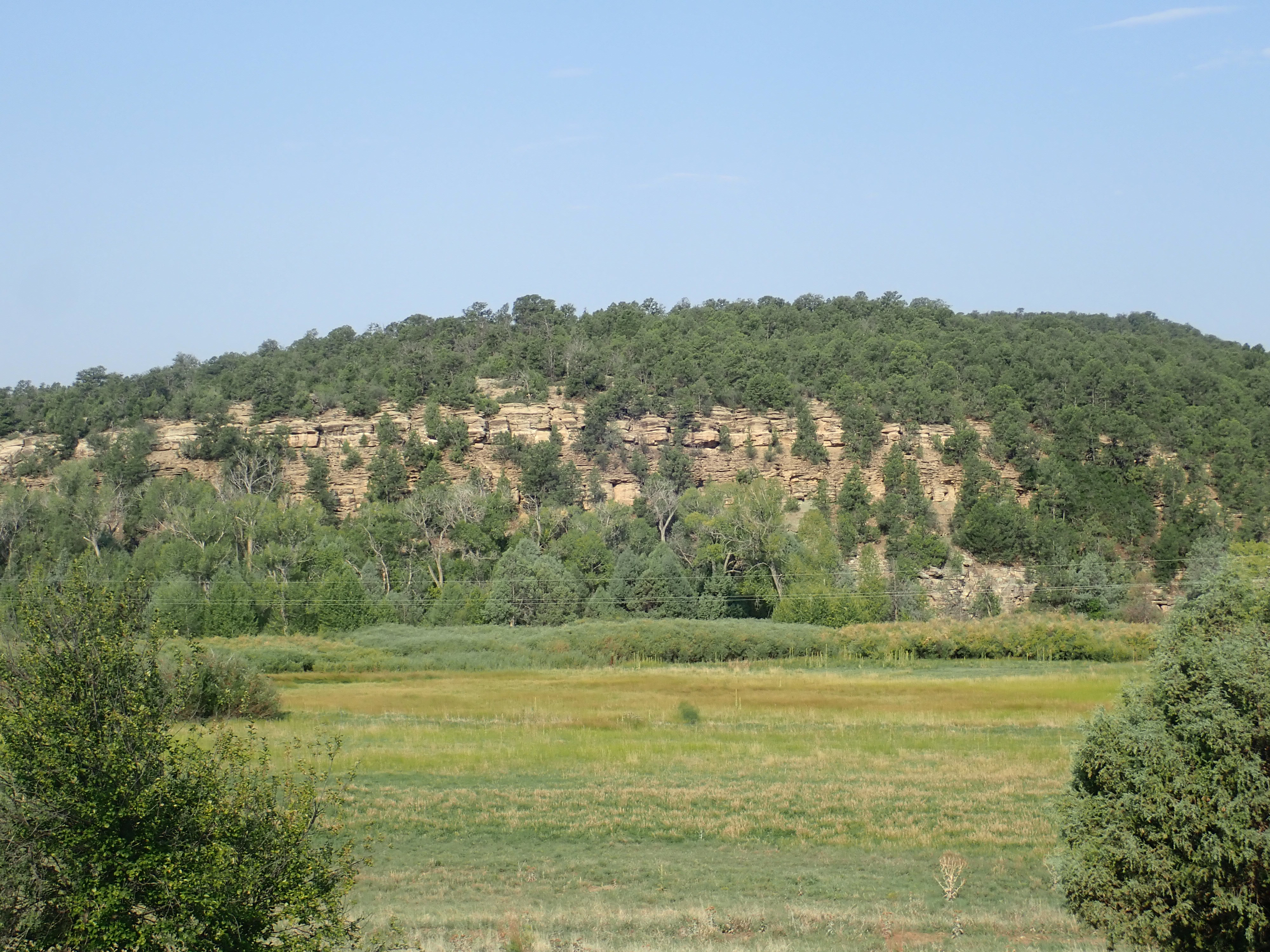 This image shows the Alamitos Formation at one of its reference sections, on the ridge between Pecos River and Alamitos Creek. The Alamitos Formation is a Pennsylvanian to earliest Permian formation, mostly of marine clastic rock but with some limestone beds.